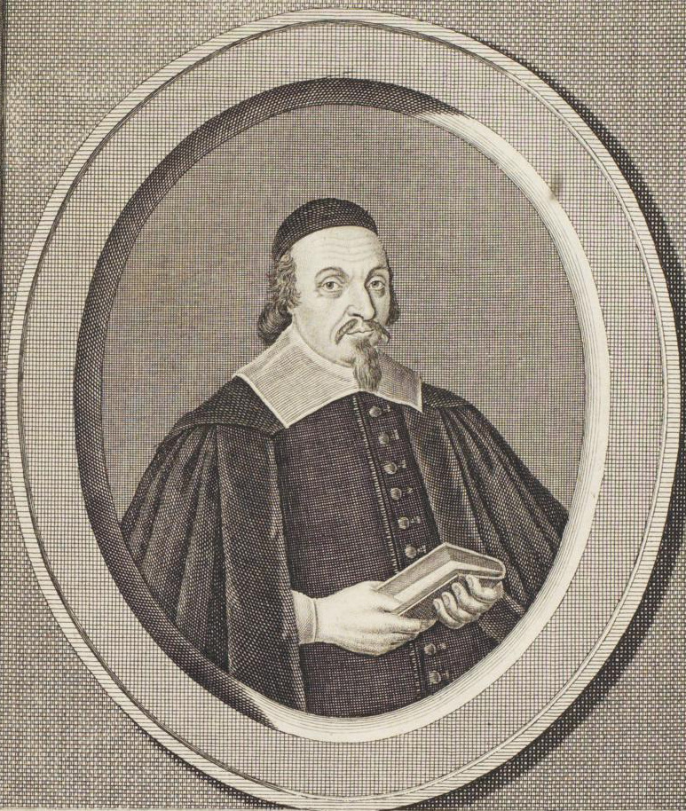 Engraved portrait of Johann Georg Dorsche, in: in: Monumenta inedita rerum Germanicarum praecipue Cimbriacarum et Megapolensium : quibus varia antiquitatum, historiarum, legum iuriumque Germaniae, speciatim Holsatiae et Megapoleos vicinarumque regionum argumenta illustrantur, supplentur et stabiliuntur ; cum tabulis aeri incisis / e codicibus ... studuit ... et cum praefatione instruxit Ernestus Joachimus de Westphalen .. Band 3, Lipsiae: Martin 1741